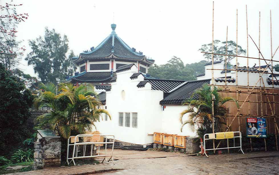 Entrance to the theological study-centre Taofung shan, Hongkong, 2000.